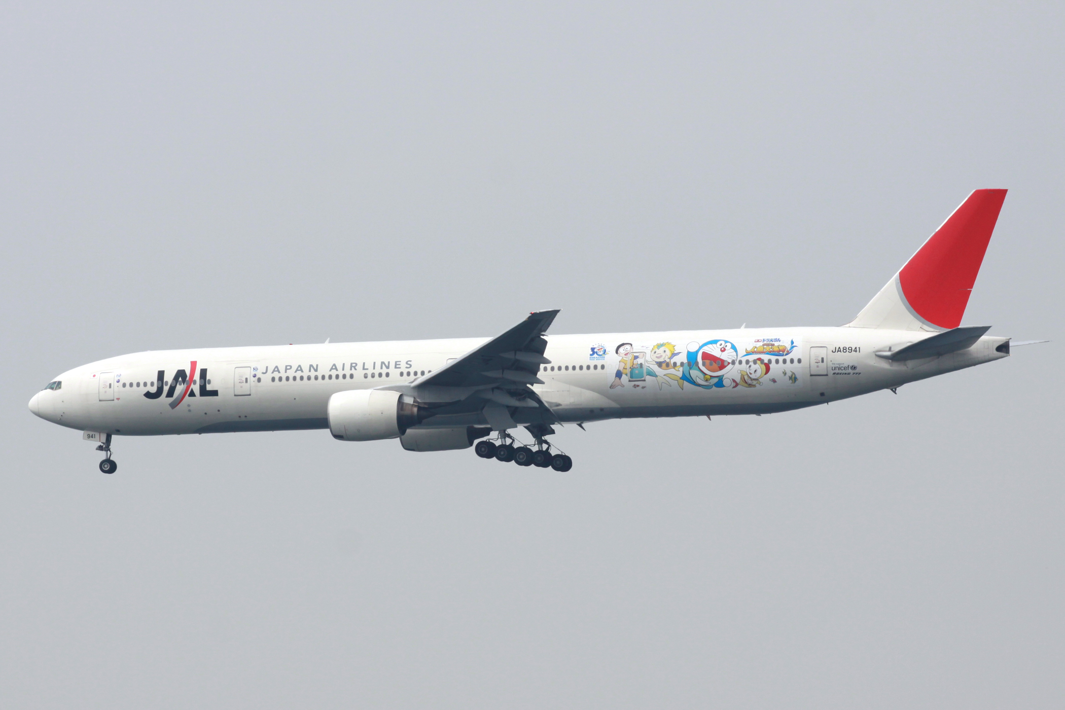 Tokyo International Airport, Boeing 777-346, c/n:28393 Japan Airlines "Doraemon Jet"